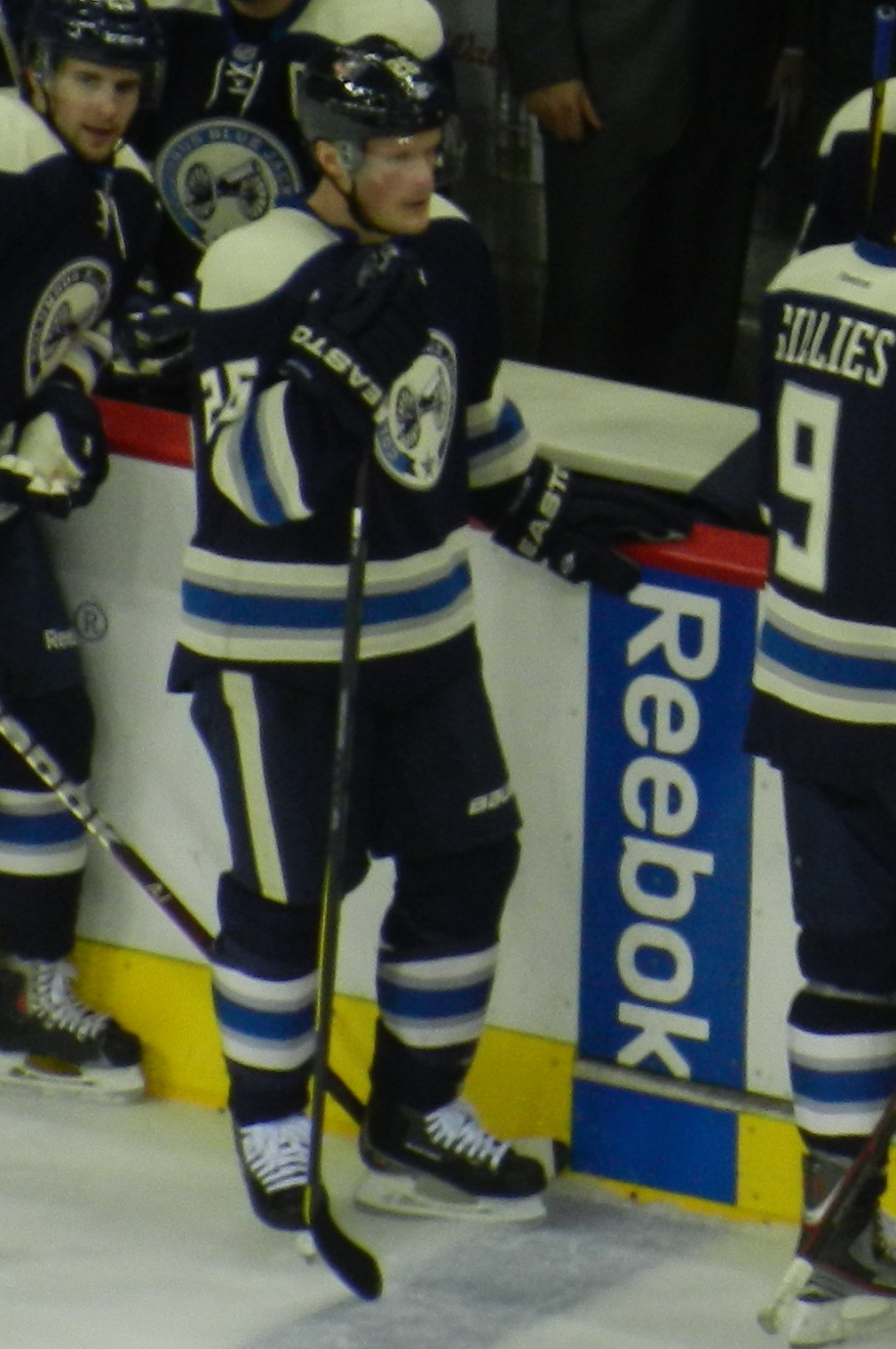 Samuel Pahlsson playing for the Columbus Blue Jackets in 2012